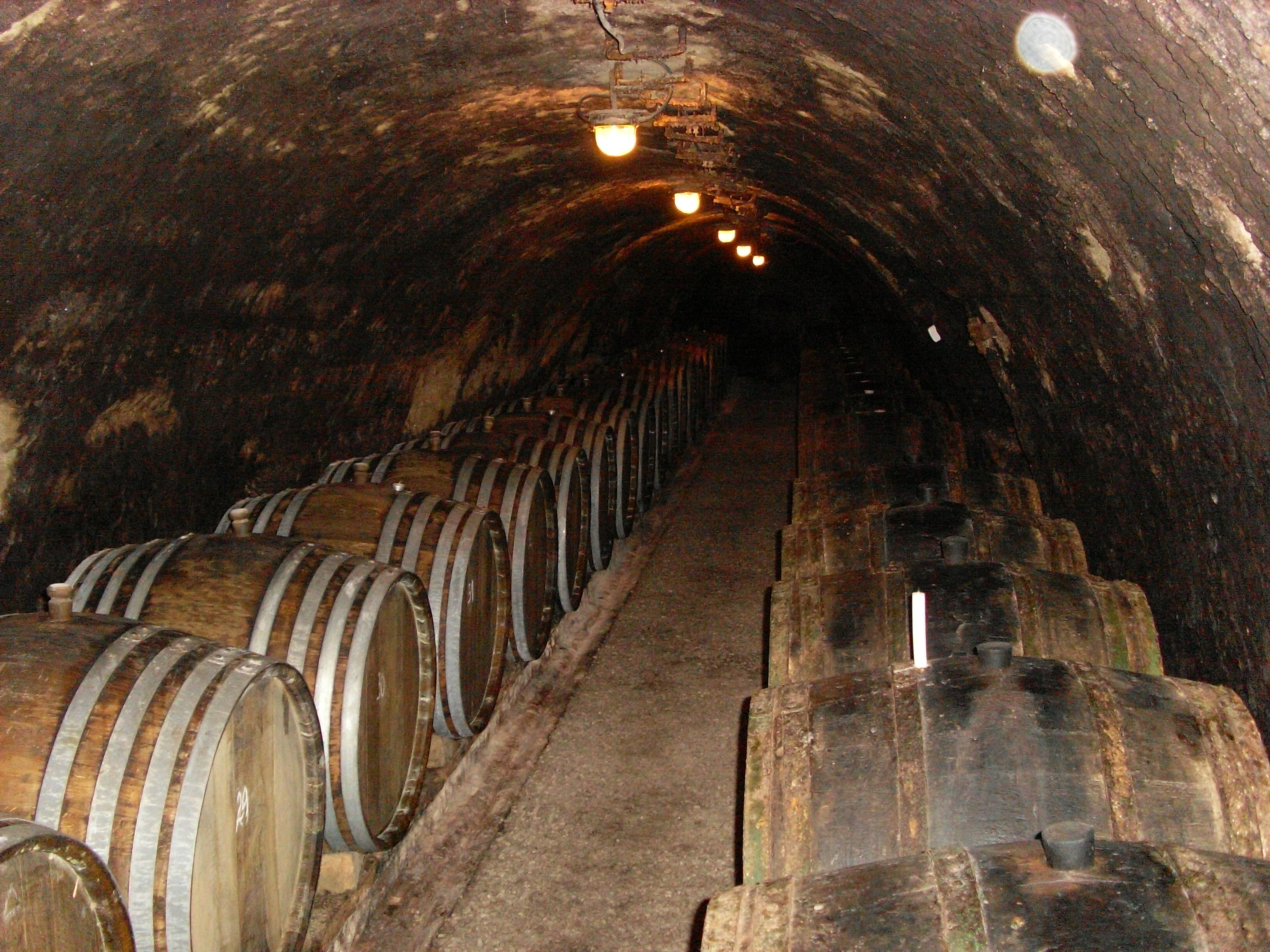 Cave of wine producer in Slovak Tokaj region / Tokaj & CO, s.r.o./